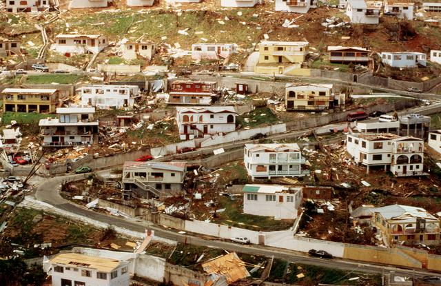 The debris and devastation scattered across St. Thomas from Hurricane Marilyn in Sept. 1995. Houses in Charlotte Amalie — on St. Thomas island, United States Virgin Islands. Link DODmedia.osd.mil URL